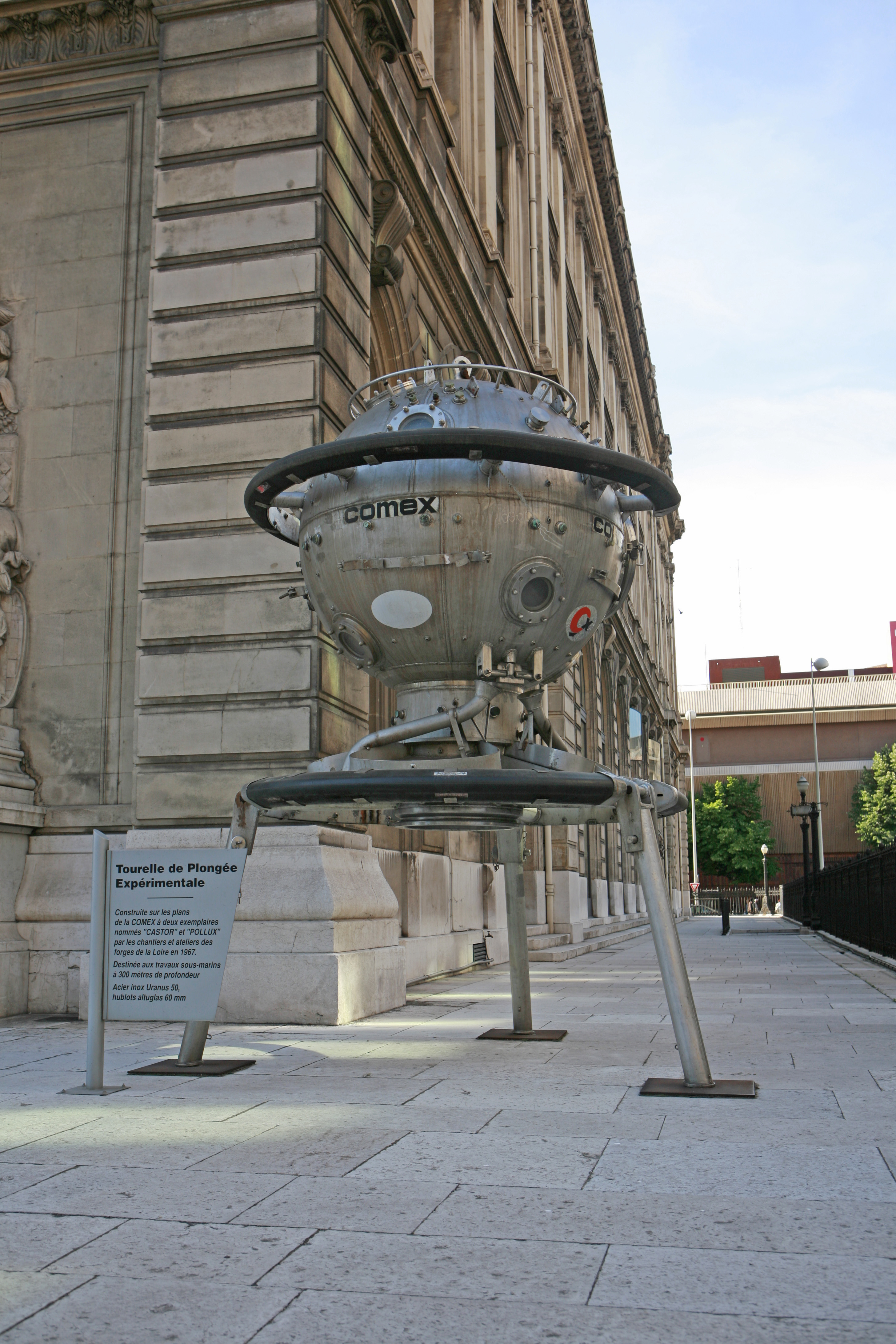 COMEX diving sphere